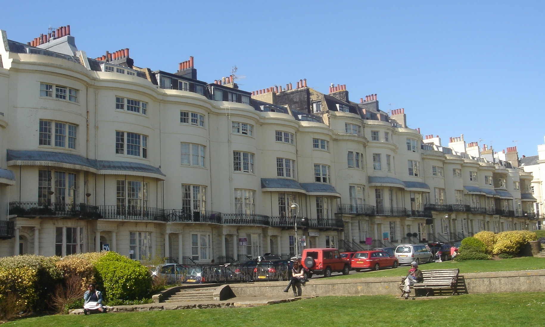 2–4 Regency Square, Brighton, City of Brighton and Hove, England. The west part of the Regency Square development built in Brighton around 1818. Listed at Grade II* by English Heritage (IoE Code 481127)